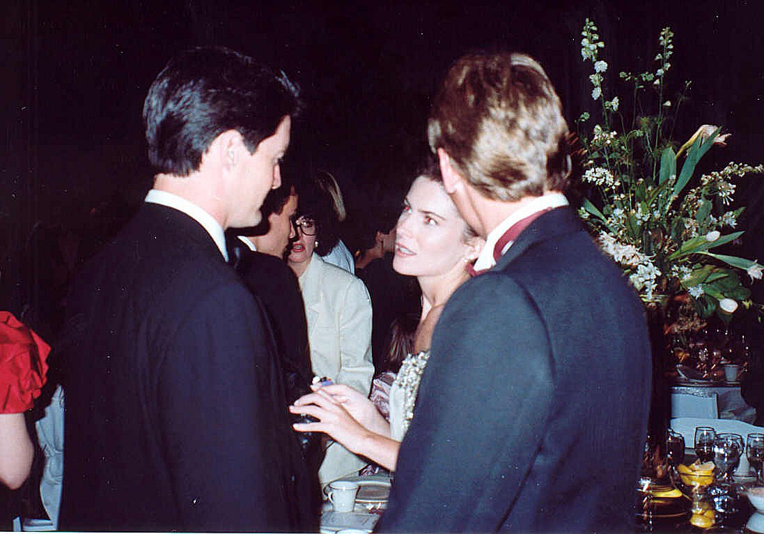 Kyle Maclachlan and Lara Flynn Boyle speak as Bruce Linser looks on, at the Governor's Ball held immediately after the 1990 Emmy Awards 9/16/90 - Permission granted to copy, publish, broadcast or post but please credit "photo by Alan Light" if you can